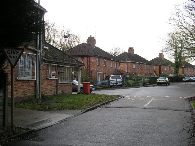 Barrow Hospital - "Staff Cottages" The main road from Wild Country Lane has a row of semi-detached houses leading to the main Lodge gates (far left). These houses are all in private ownership (probably many are ex-staff) and are likely to survive longer than the hospital buildings when the site is redeveloped following the hospital's closure in Spring 2006